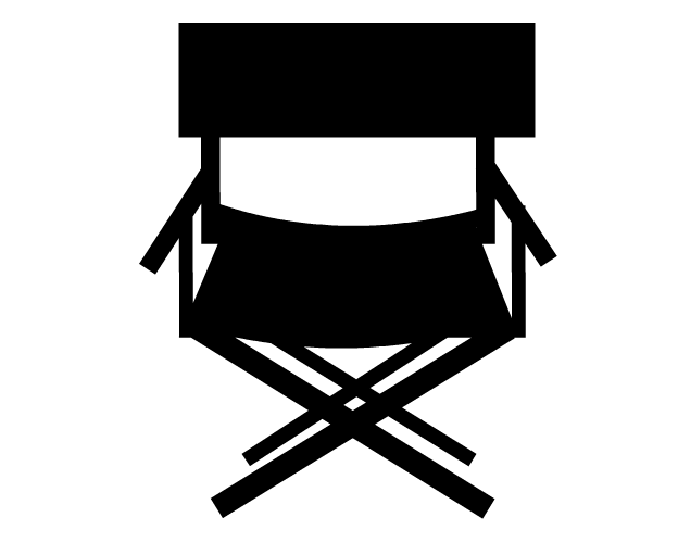 director chair icon